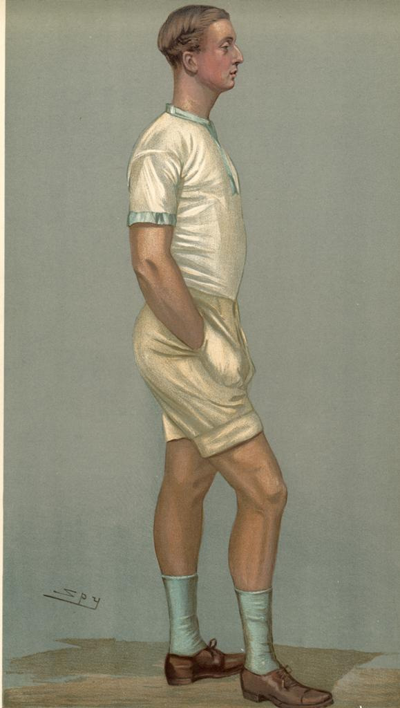 Caricature of William Dudley-Ward. Caption reads "CUBC".